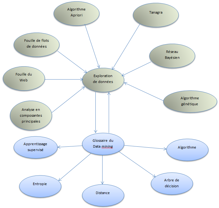 An example of Hub and Authority node.